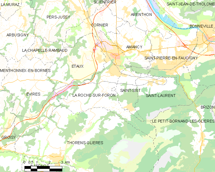 Map of French municipality La Roche-sur-Foron